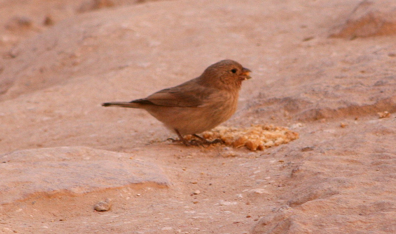 Female pale Rosefinch (Carpodacus synoicus), Petra, Jordan